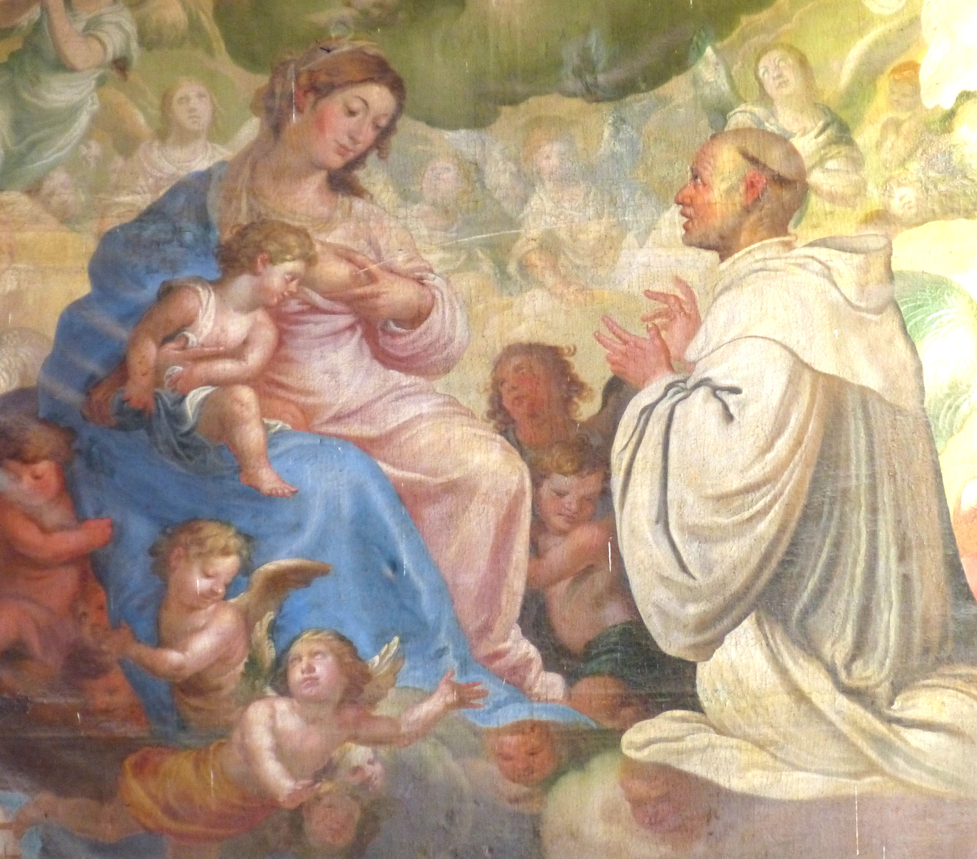 Aldersbach abbey ( Lower Bavaria ). Mary Assumption parish church: Rococo high altar (1723) by Joseph Matthias Götz - Altar painting ( 1619 ) showing the Lactatio Bernardi by Johann Matthias Kager.